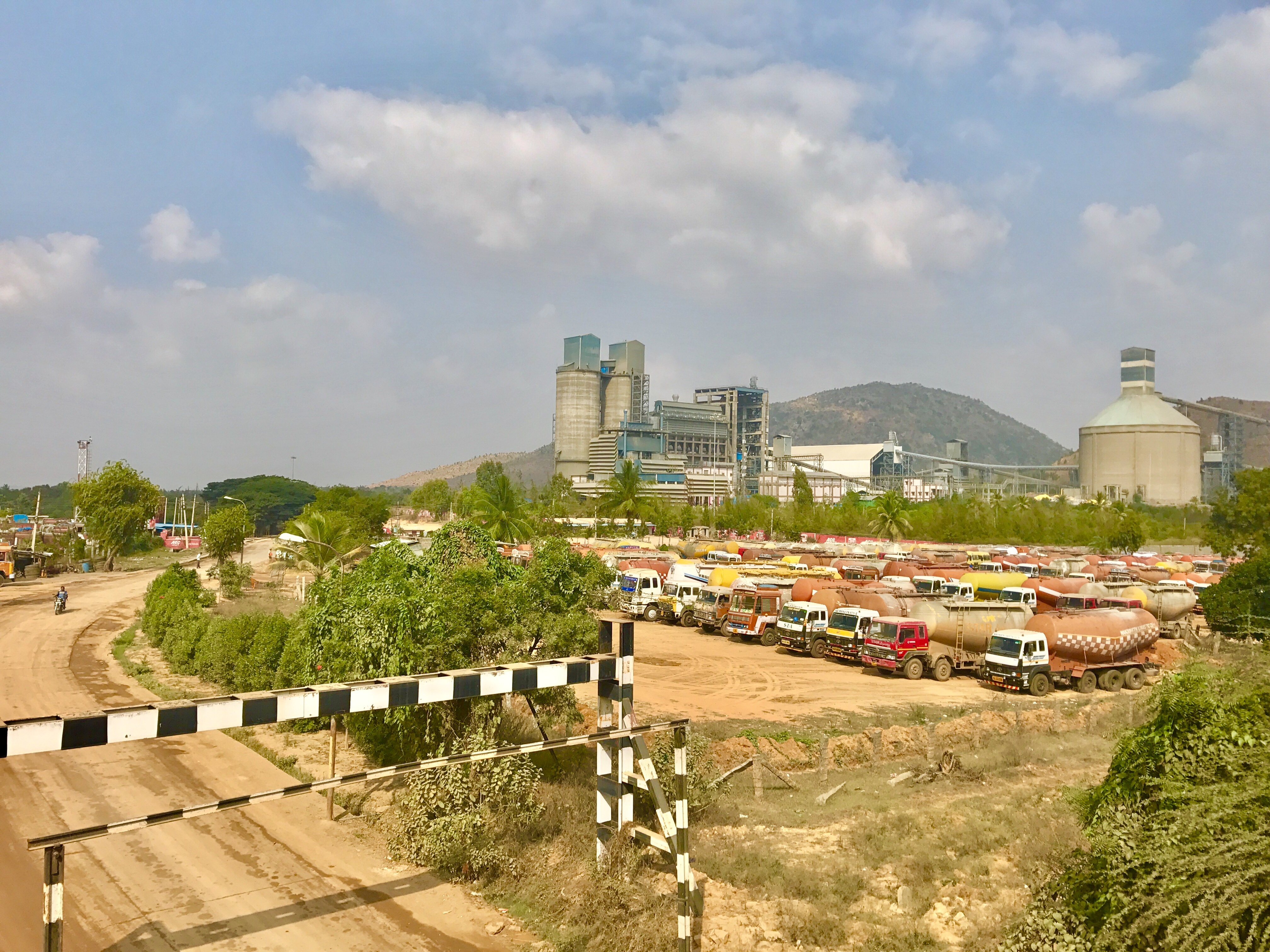 A Factory near Gauribidanur